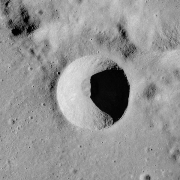 Fabbroni crater, on the moon.